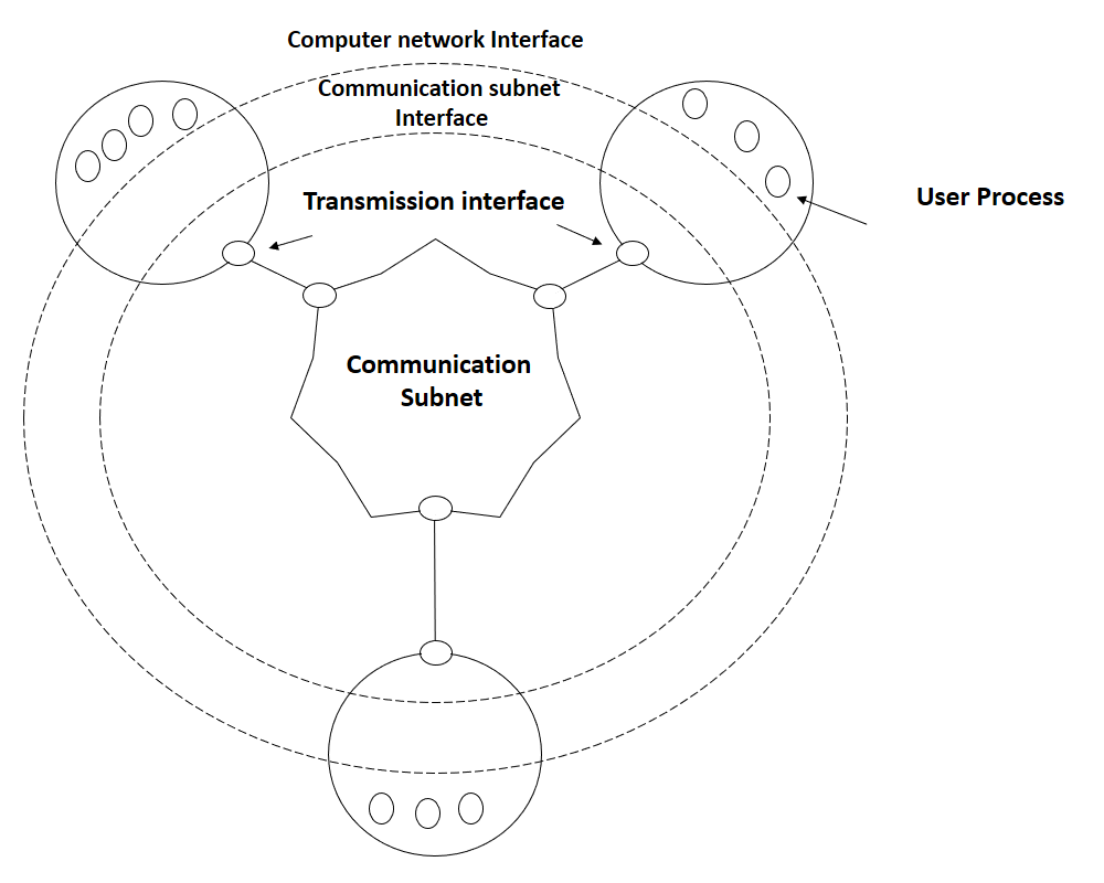 National Physical Laboratory (NPL) Network Model.